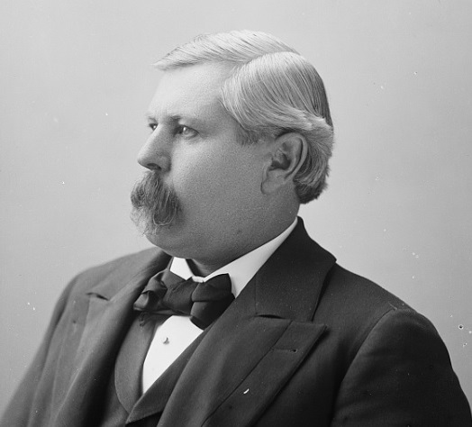 William Hall Doolittle (Washington Congressman)